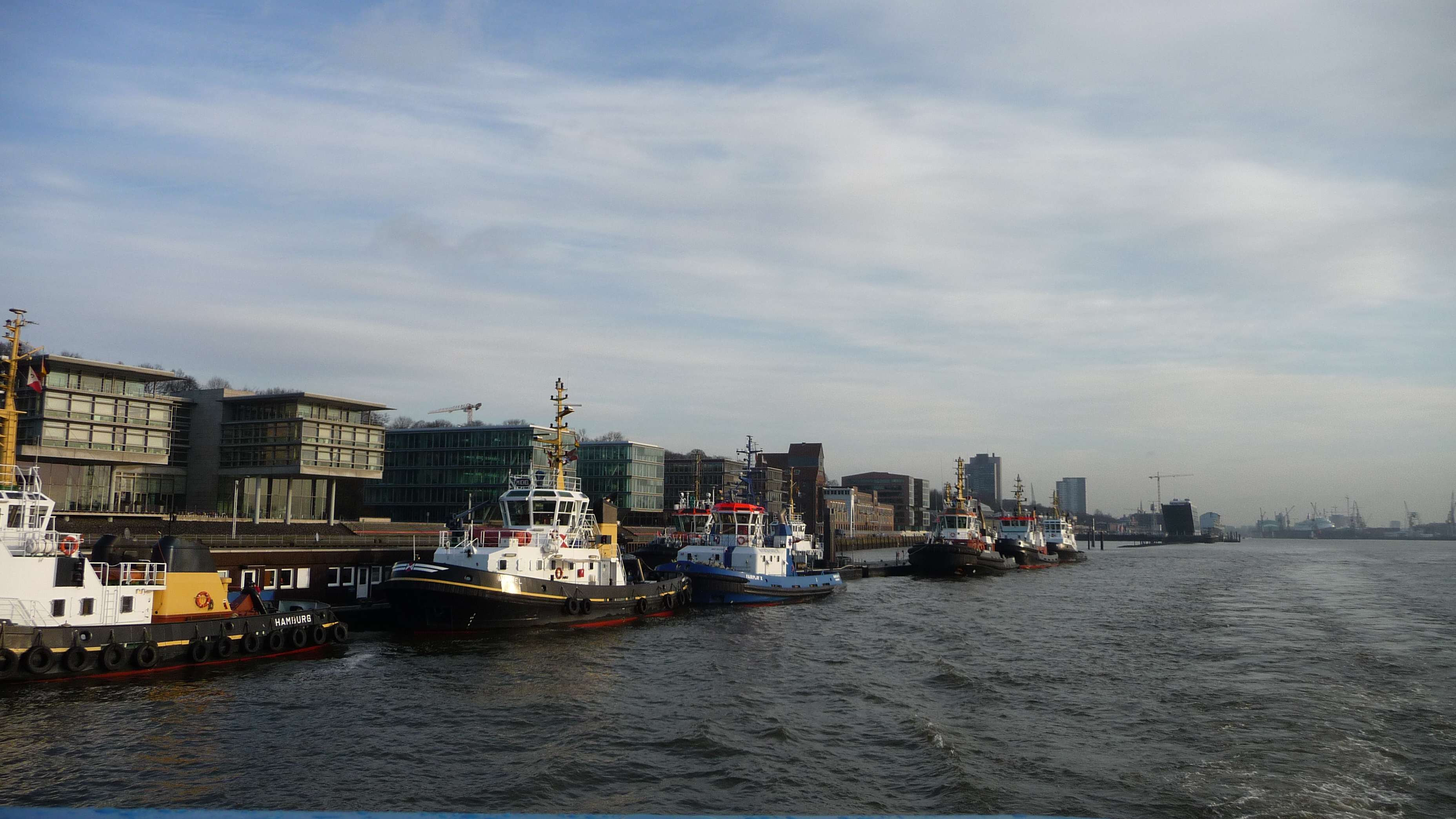 The following is the author's description of the photograph quoted directly from the photograph's Flickr page. "tugboats "